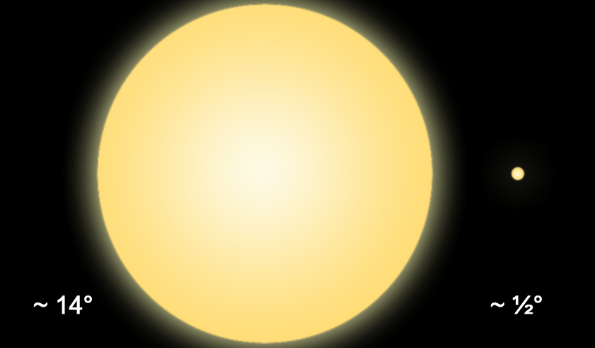 Compared to the view from Earth, (roughly half a degree) the Sun would occupy almost 14 degrees of the sky as seen from the probe.